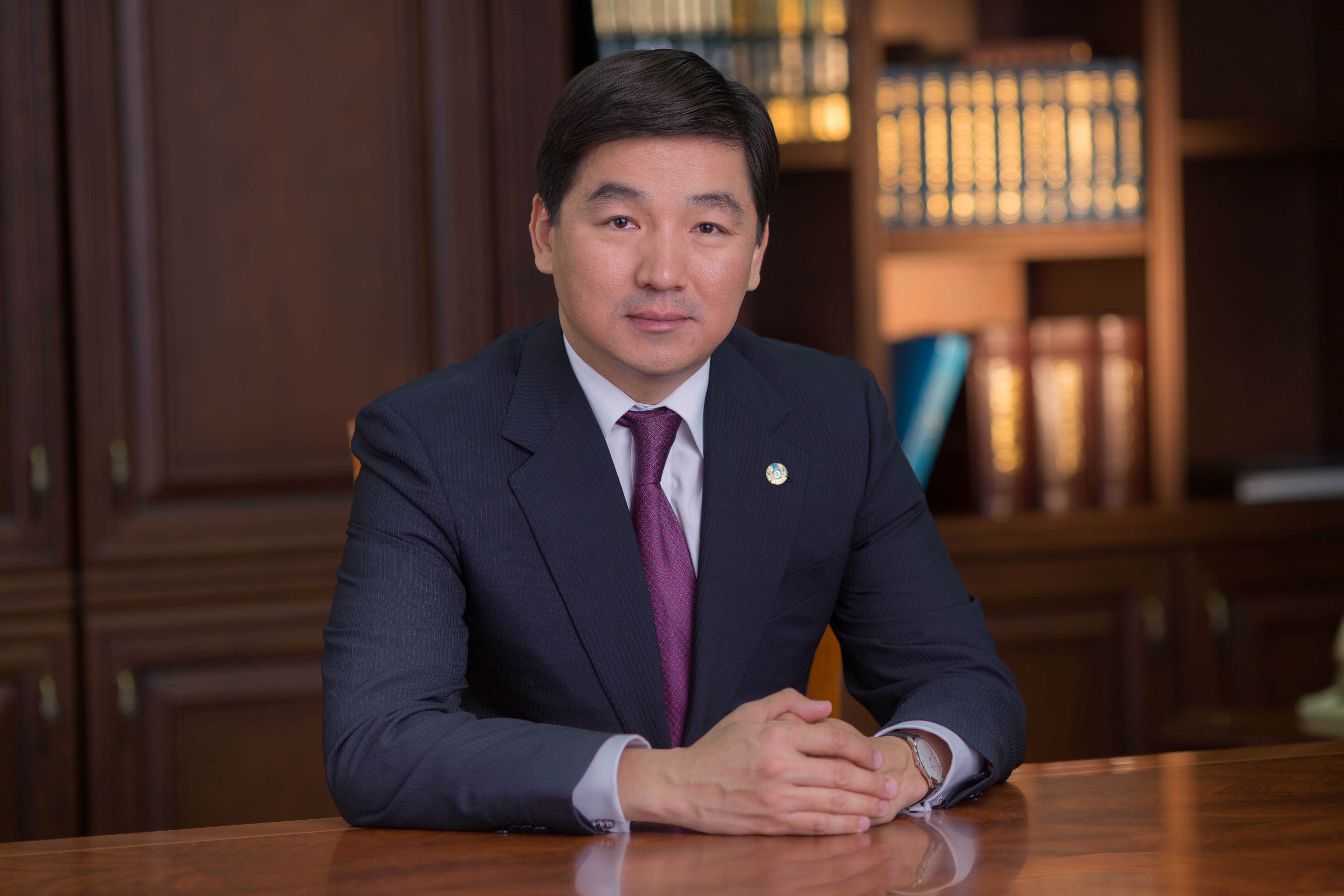 Bauyrzhan Baibek